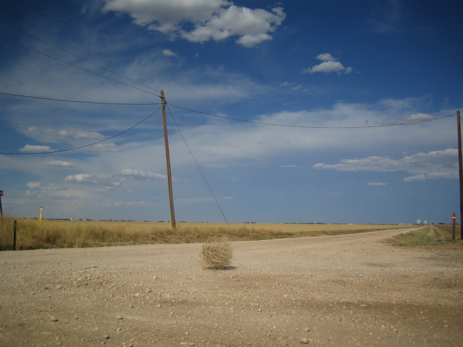 Tumbleweed Kali tragus (Syn. Salsola tragus)